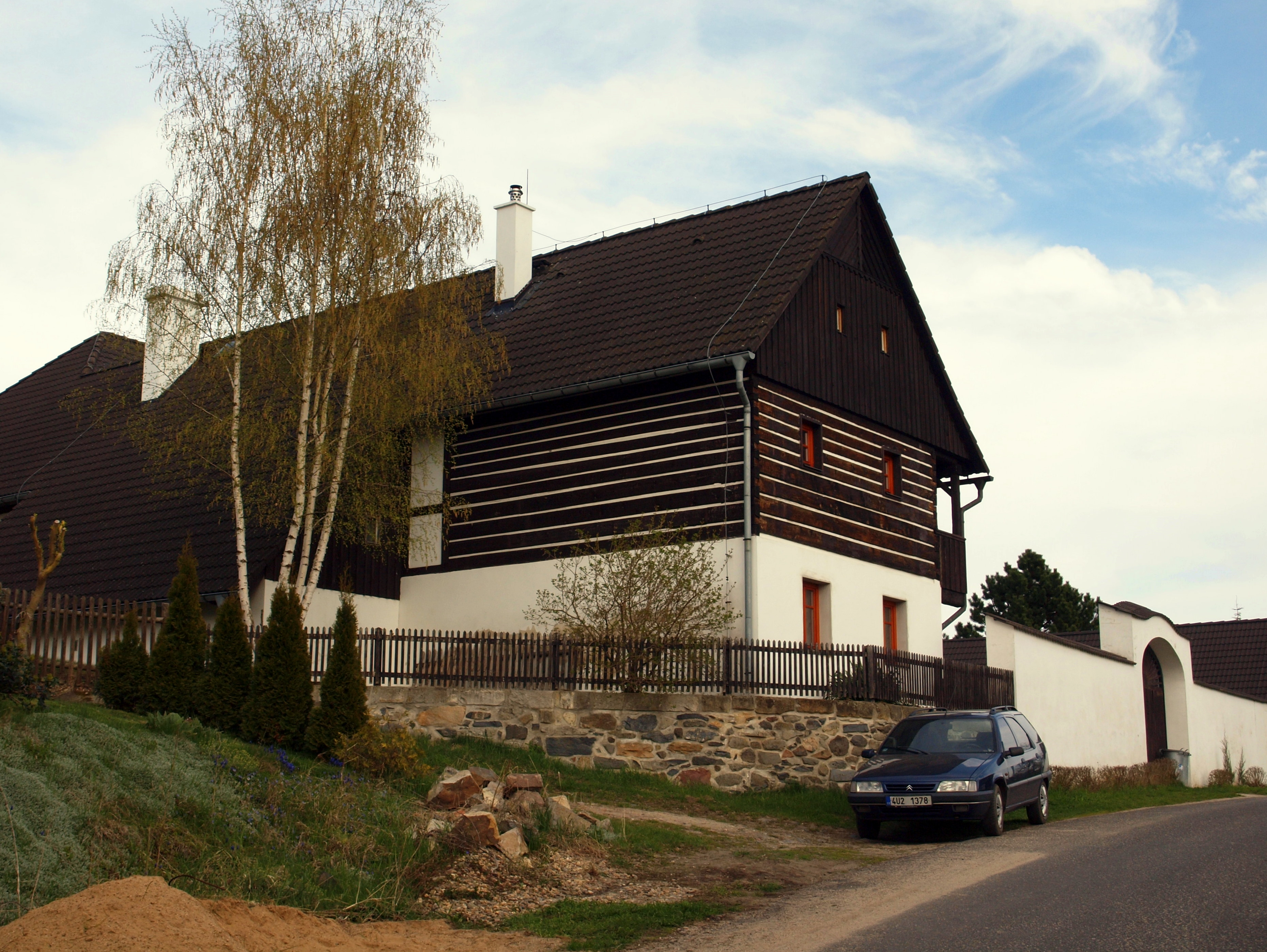 Soběnice - Folk Architecture